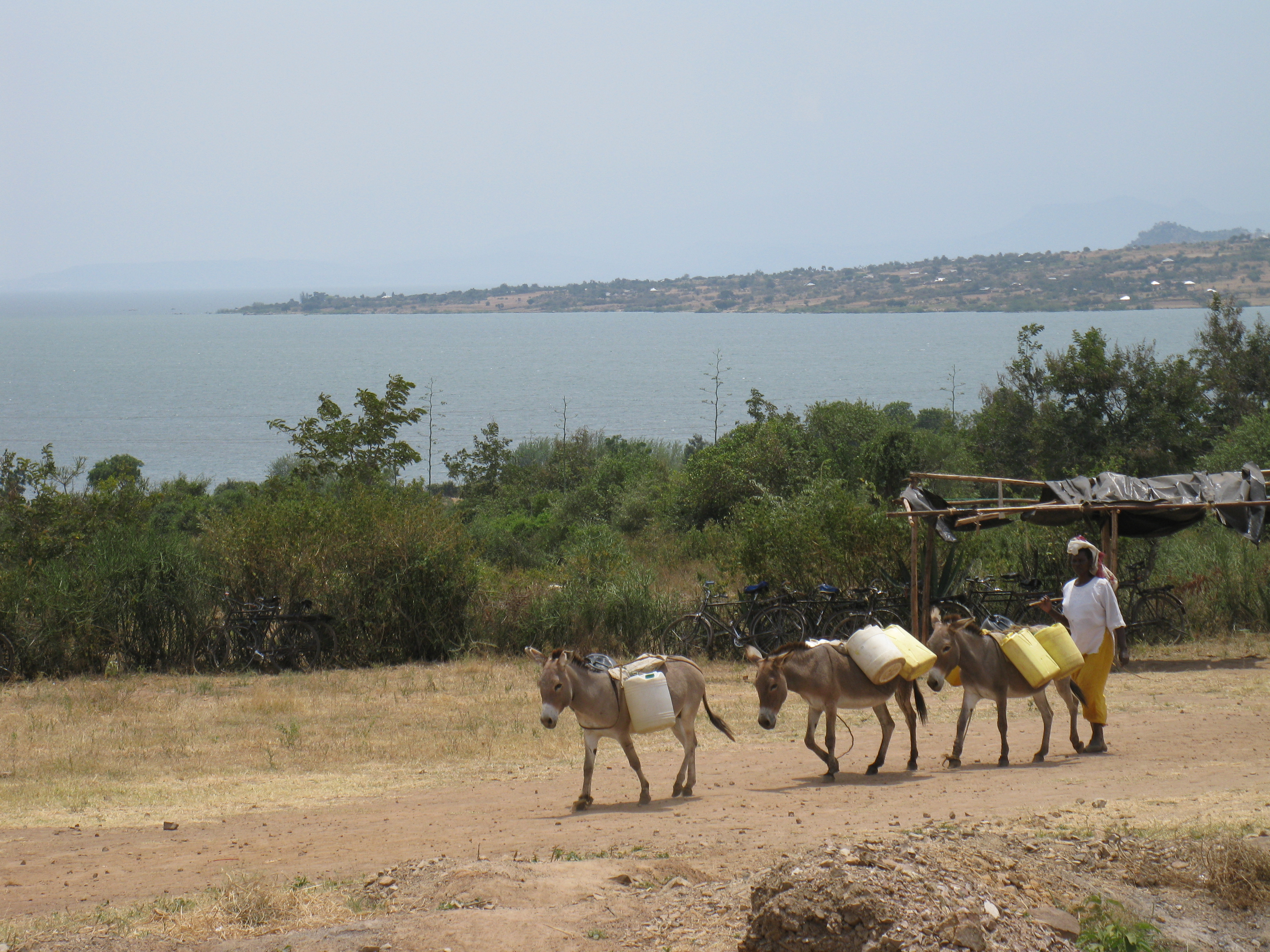 Duke University/Wiser Girls Project, Muhuru Bay